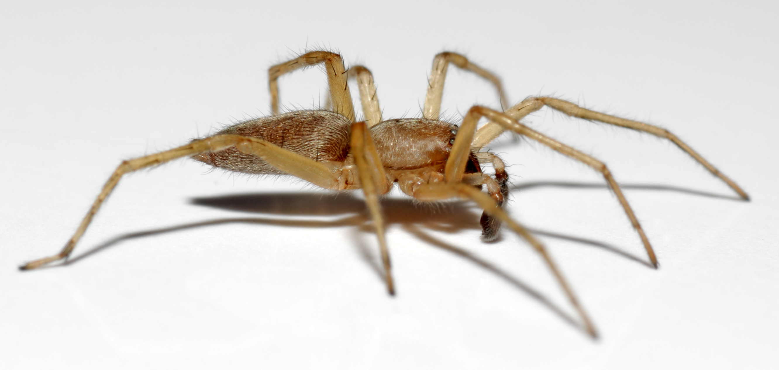 This image shows a spider of the genus Clubiona.